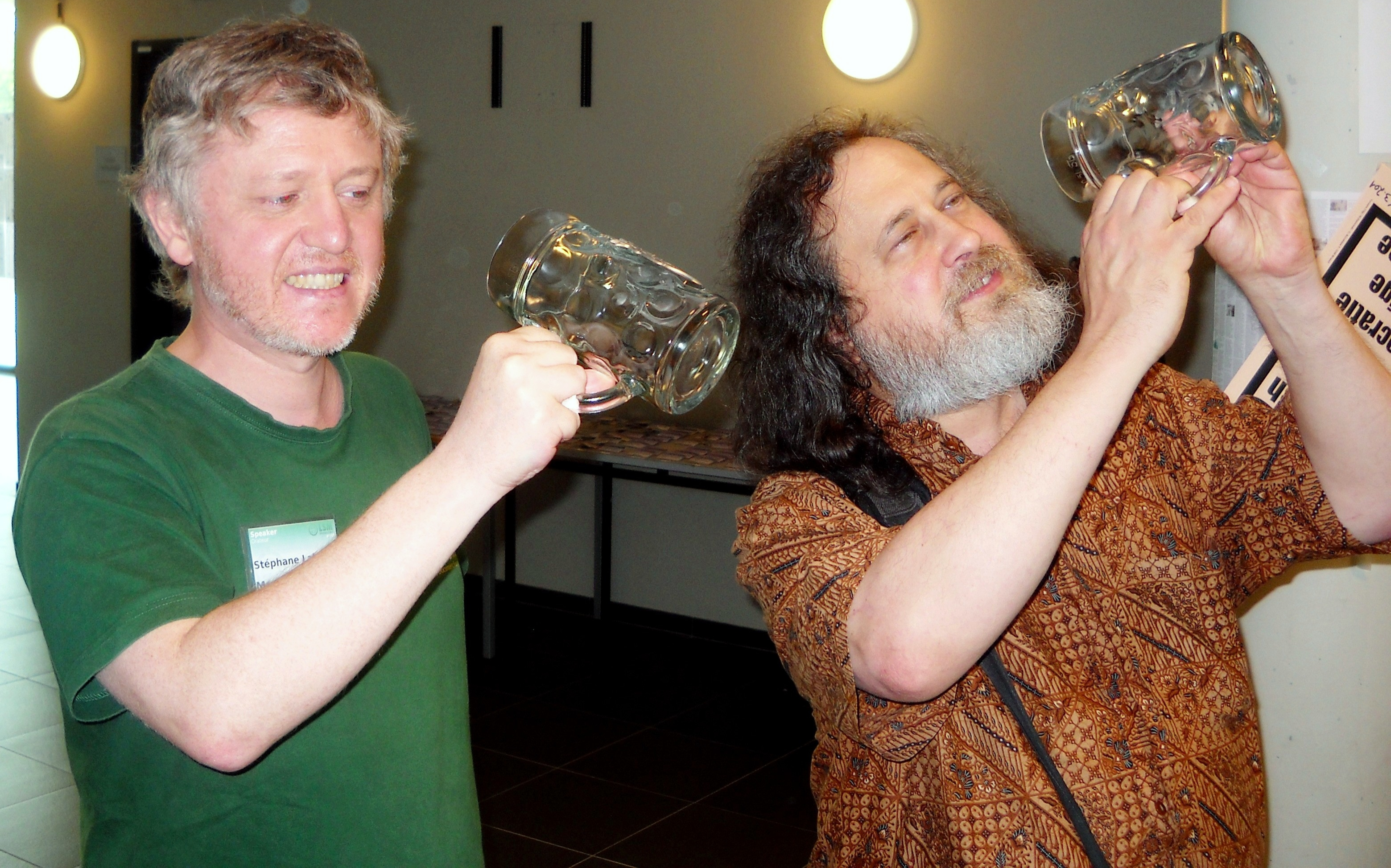 Richard Stallman (right) illustrating his famous sentence "free as in free speech not as in free beer", with a beer glass. Brussels, RMLL, 9 July 2013